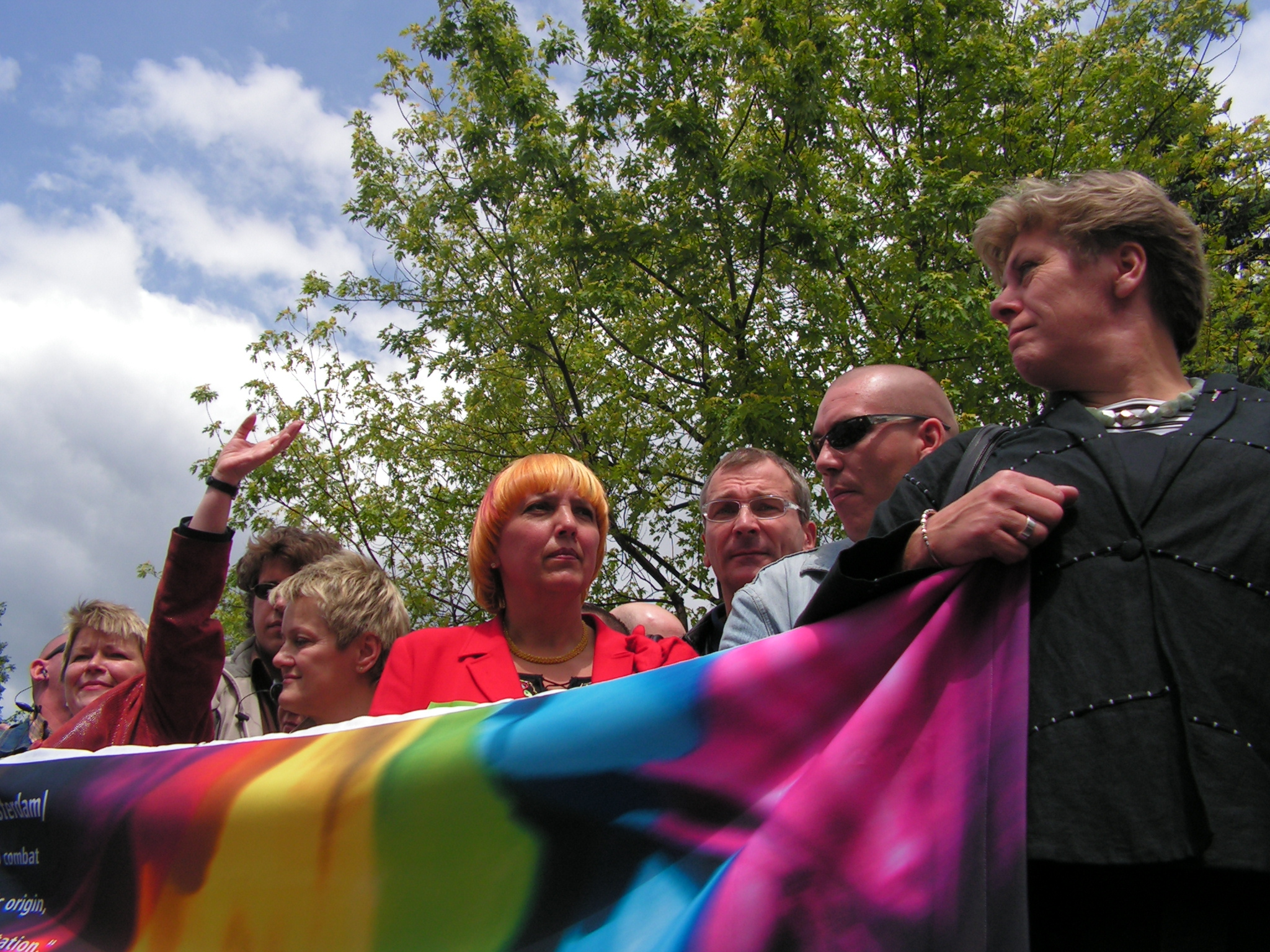 Parada Rownosci 2006: Renate Künast, Claudia Roth i Volker Beck